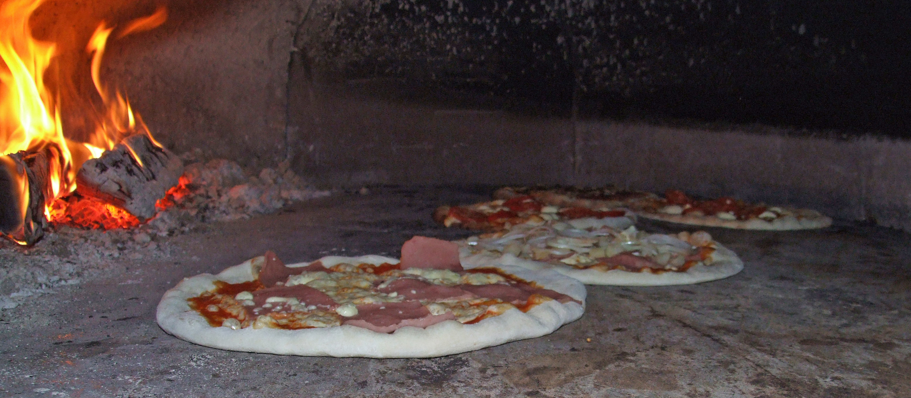 A wood-burning pizza oven baking pizzas at Maurizio's Pasta-Pasta at Brunckstraße 8 in Speyer, Germany.